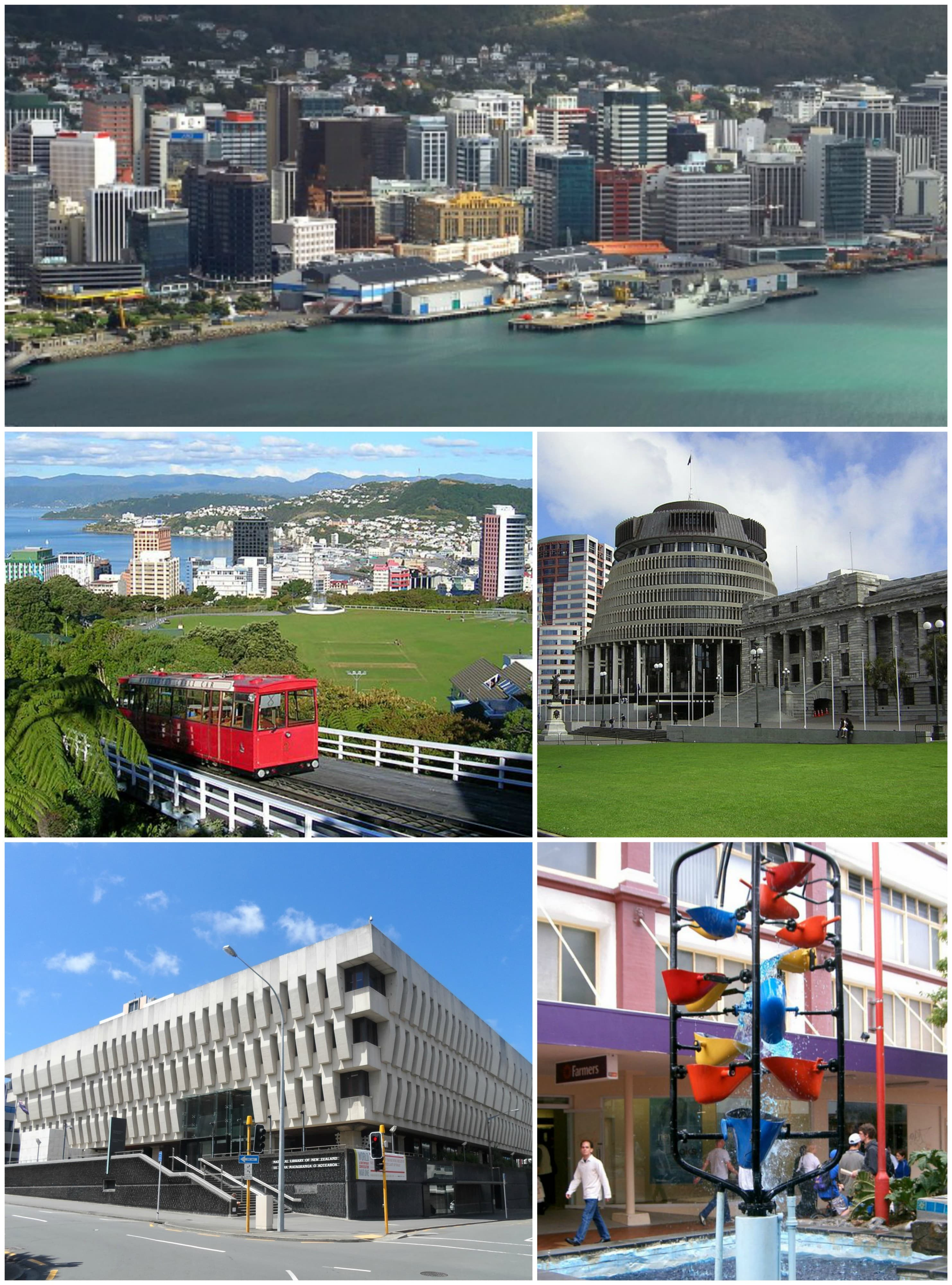 Montage of pictures of Wellington, capital of New Zealand